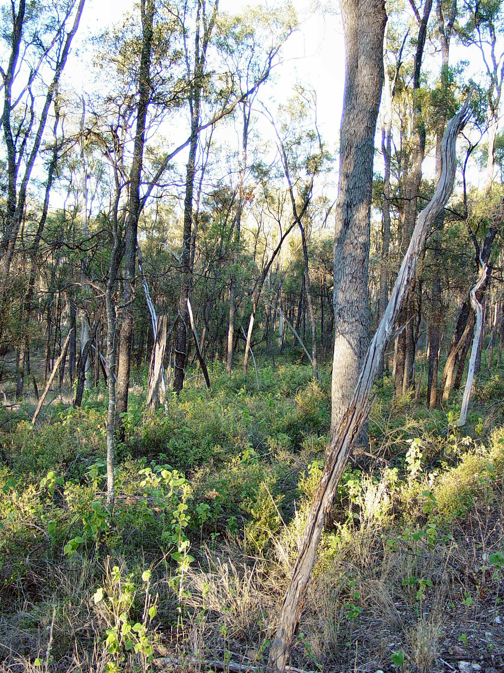 A stand of Ooline trees at Tregole National Park.